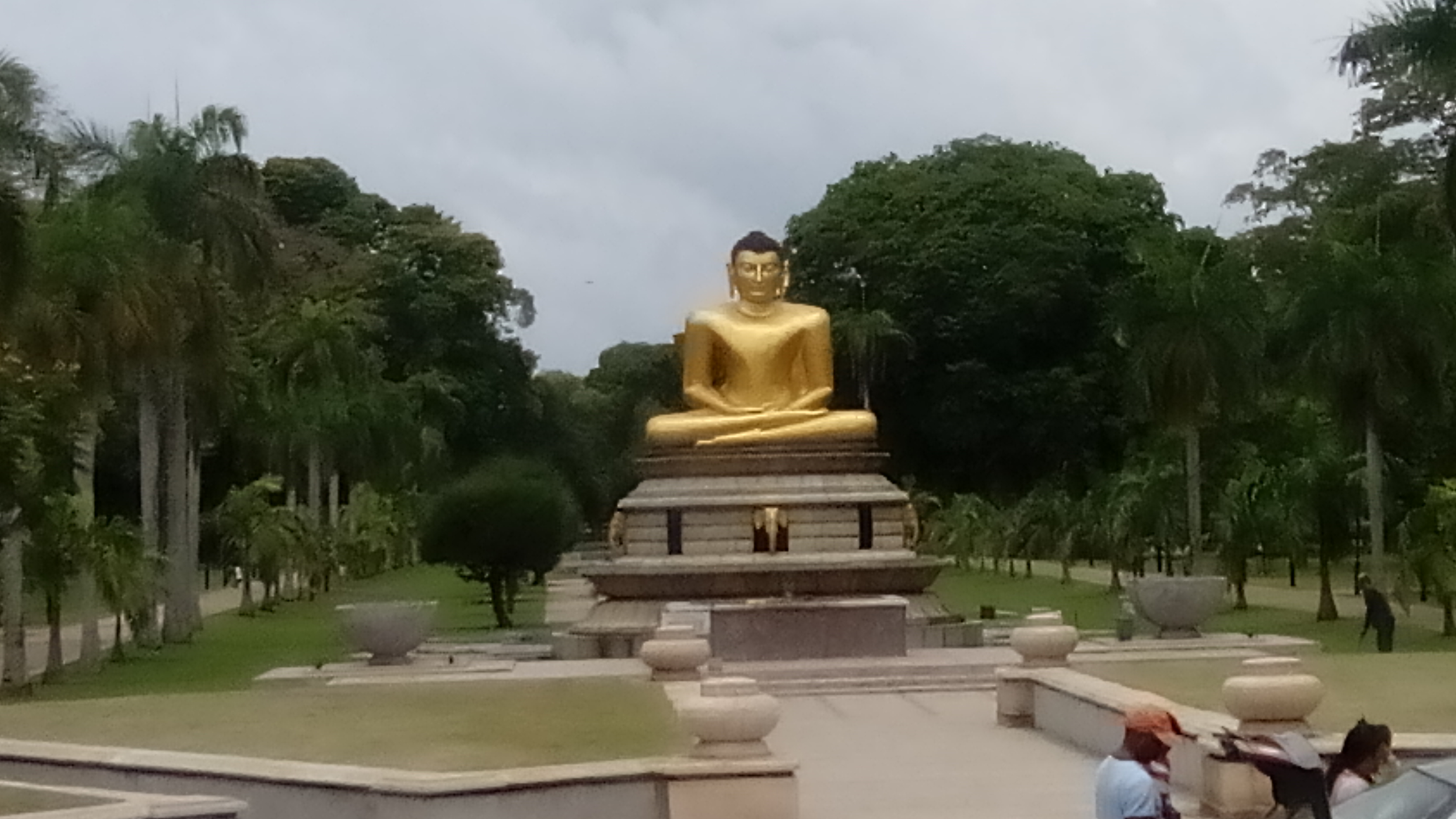 Colombo Buddha statue, Sri Lanka.